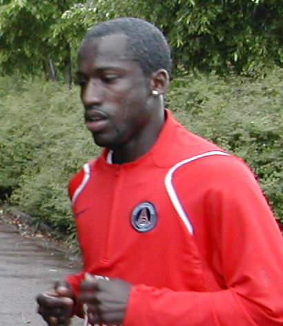 Amara Diané, Ivorian soccer player from the Paris Saint-Germain, in the Camp des Loges (Saint-Germain-en-Laye).